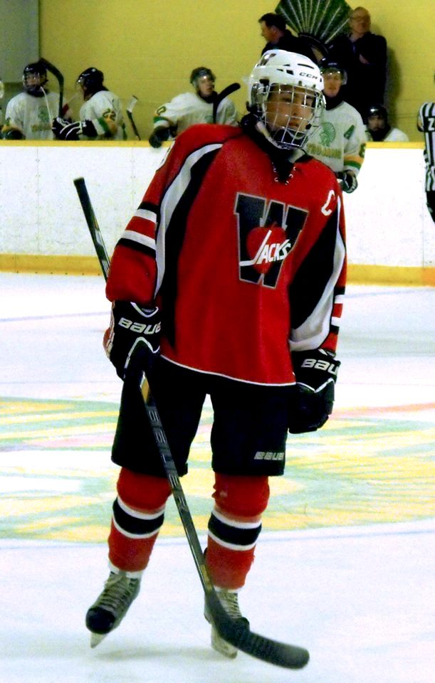 These images of OHA Jr. C action during the 2014-15 season are taken by Devan Mighton.